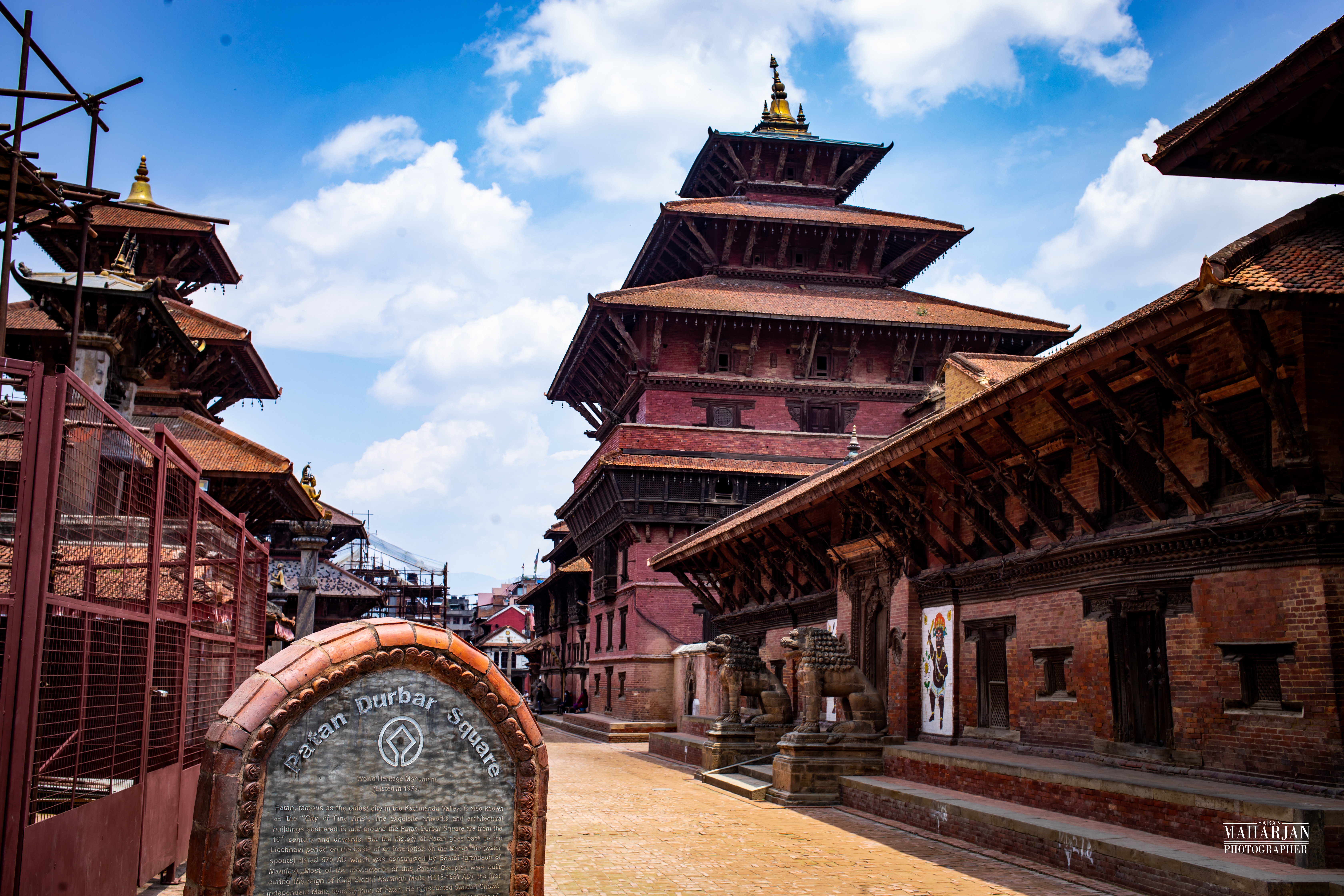 Patan Durbar Square is situated at the centre of the city of Lalitpur in Nepal. It is one of the three Durbar Squares in the Kathmandu Valley, all of which are UNESCO World Heritage Sites